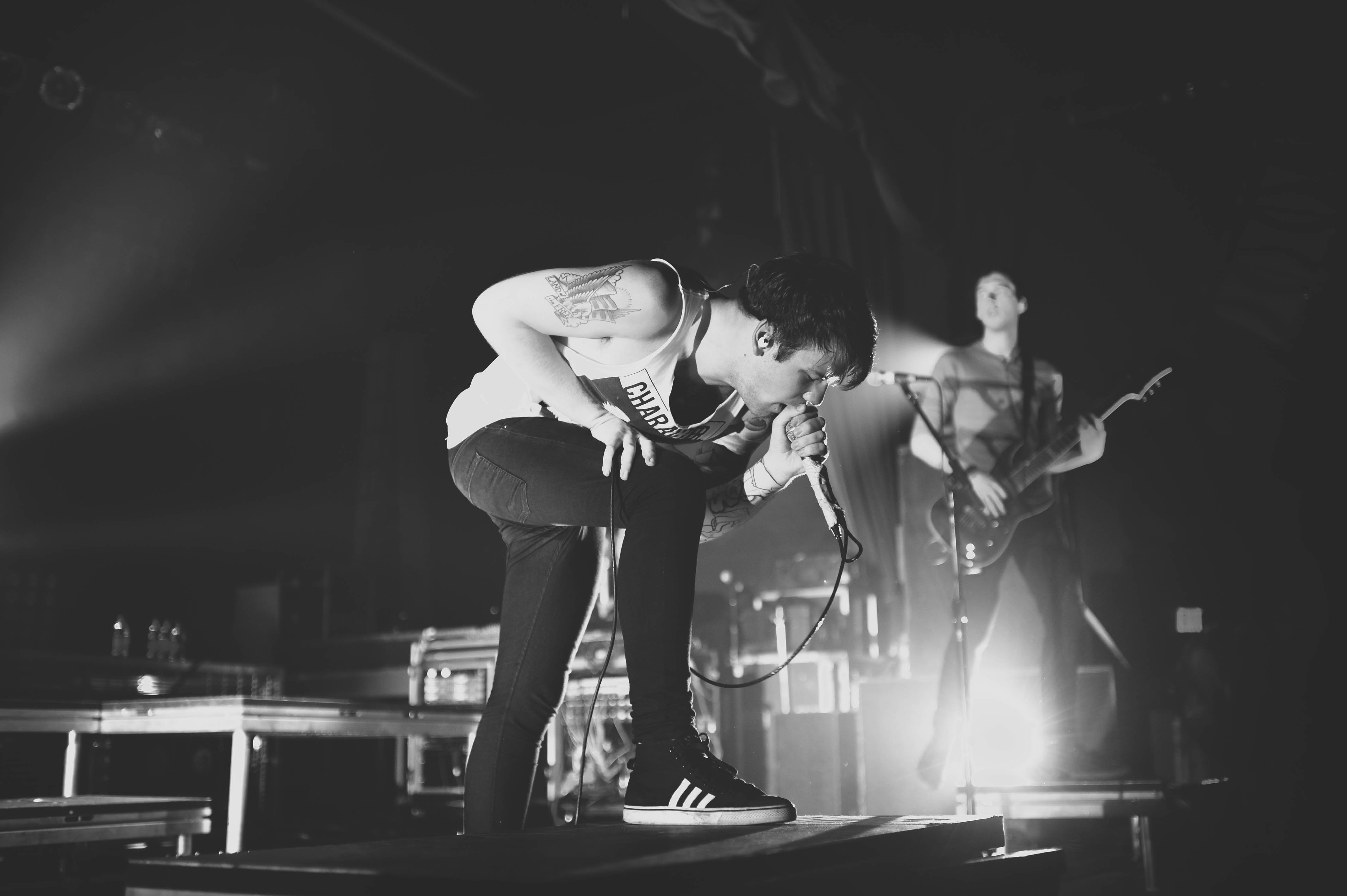 Caleb Shomo live in 2012 with Attack Attack!